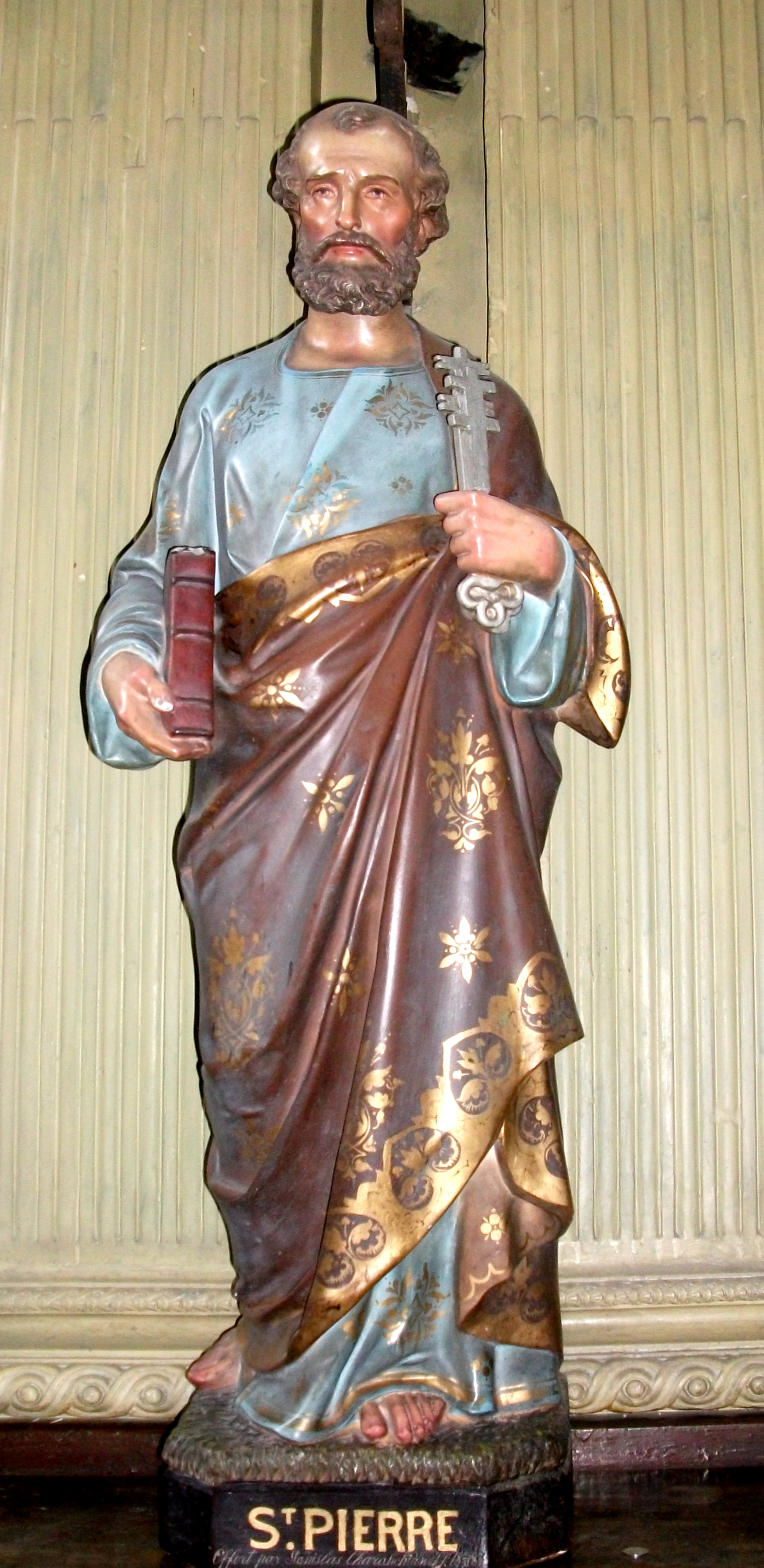 Tbilisi St. Peter-Paul Catholic Church